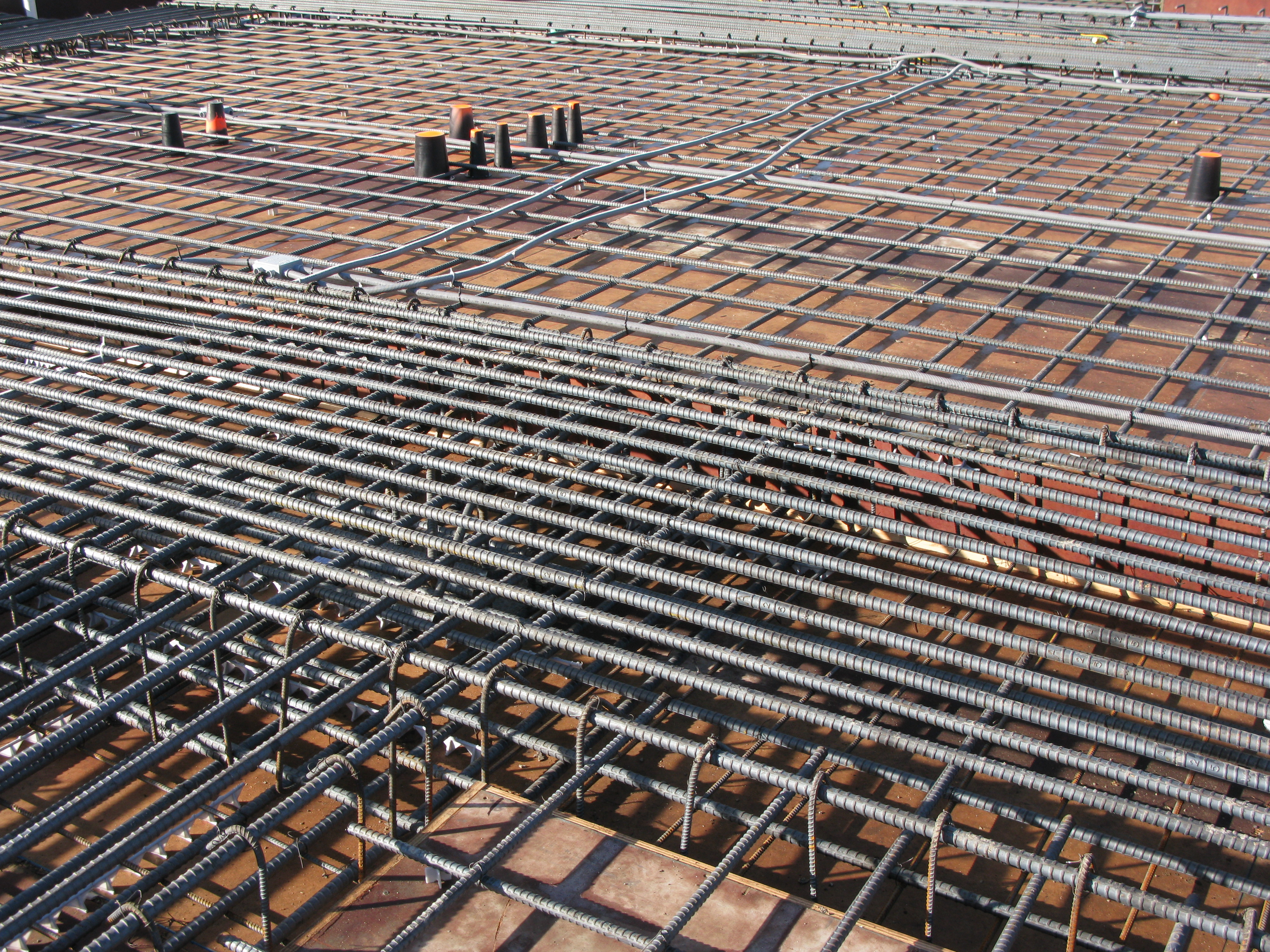 Two intersecting beams in a parking garage slab, without the top layer steel placed yet.